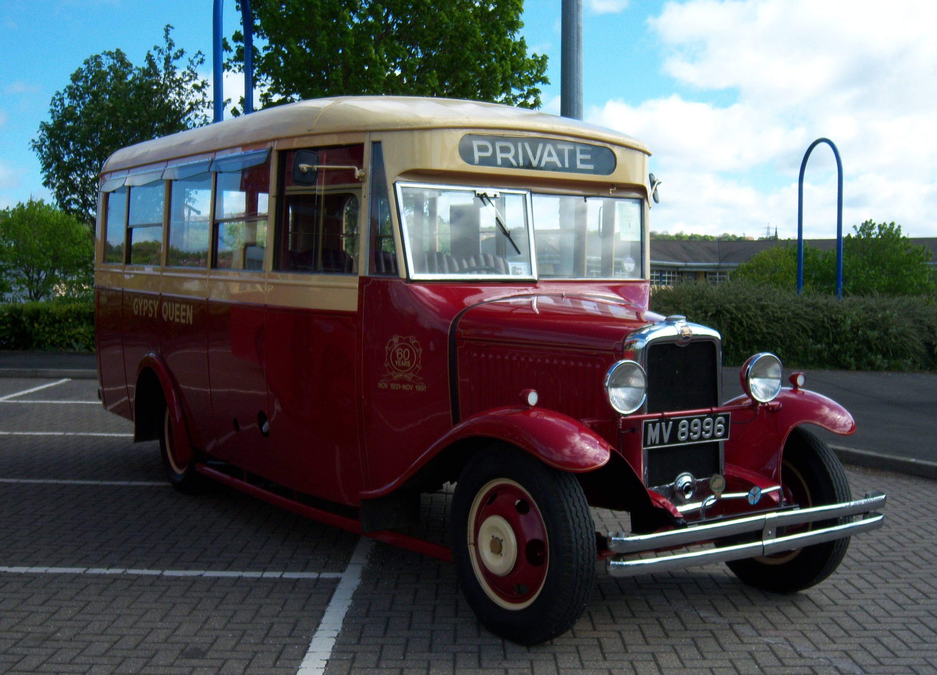 Preserved bus on display at the 2009 Metrocentre bus rally.